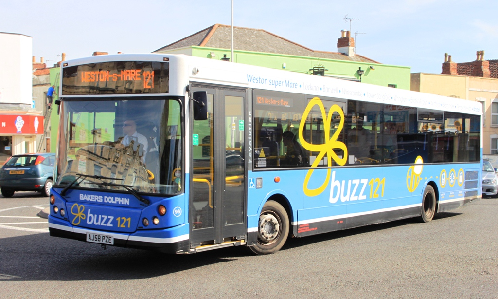 Bakers Dolphin number 96 (an MCV Evolution registed AJ58PZE) is nearly at journey's end on route 121 from Bristol to Weston-super-Mare via Bristol Airport.